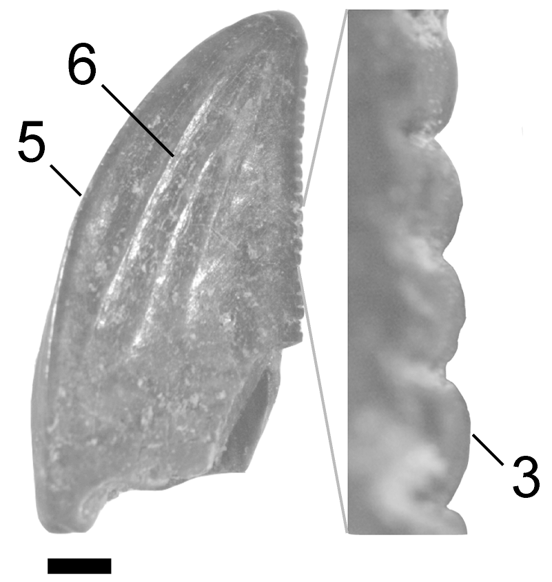 Tooth of cf. Zapsalis, with close up of denticles. Specimen UALVP 49582 from the Milk River Formation.